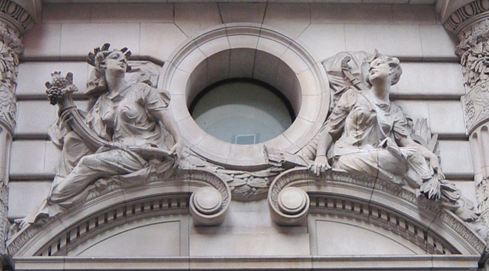 Images of the Goddesses Pomona (left) and Diana (right) together decorate the entrance to The Peninsula Hotel, occupying a Beaux-Arts building (originally The Gotham hotel, Hiss and Weekes, architects) at Fifth Ave. and 55th St., New York City. Here, Pomona (Goddess of Orchards) carries a cornucopia; in other images she is represented carrying a platter of fruit. Diana, as Goddess of the Hunt, carries her usual bow and arrows In the context of commercial buildings of the late 19th and early 20th century these decorations may be thought of as symbols representing respectively agriculture and commerce, for agriculture formed the foundation for much of the wealth of the time and commerce (as is industry) is a perpetual hunt for profits and advantage. The Gotham was one of the first hotels in New York to use steel-frame construction and was for a short time time the city's tallest skyscraper. The entire façade appeared to have been recently cleaned and so the sculptures were doubly beautiful. Of special note (and characteristic of Beaux Arts) is the naturalism of the images; note that Diana is resting her hand upon the more formal building decorations - in much the same way as would a person sitting at that location. Rather than being a mere decoration, the images are characteristically sculptural in their representation of life. The clinging draperies of the figures can also be seen in classic Greek sculptures such as the Elgin marbles removed from the Parthenon, but here are rendered in a more abstract and less detailed manner, which may be considered to be more suitable to the scale and viewpoint and hence more modern than the classic sculptural prototypes.